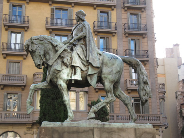 Ramon Berenguer III the Great was the count of Barcelona, Girona, and Osona from 1082 (jointly with Berenguer Ramon II and solely from 1097), Besalú from 1111, Cerdanya from 1117, and Provence, in the Holy Roman Empire, from 1112, all until his death in Barcelona in 1131. As Ramon Berenguer I, he was Count of Provence from 1112 in right of his wife. Born in 1082 in Rodez, he was the son of Ramon Berenguer II. He succeeded his father to co-rule with his uncle Berenguer Ramon II. He became the sole ruler in 1097, when Berenguer Ramon II was forced into exile. During his rule Catalan interests were extended on both sides of the Pyrenees. By marriage or vassalage he incorporated into his realm almost all of the Catalan counties (except those of Urgell and Peralada). He inherited the counties of Besalú (1111) and Cerdanya (1117) and in between married Douce, heiress of Provence (1112). His dominions then stretched as far east as Nice. In alliance with the Count of Urgell, Ramon Berenguer conquered Barbastro and Balaguer. In 1118 he captured and rebuilt Tarragona, which became the metropolitan seat of the church in Catalonia (before that, Catalans had depended ecclesiastically on the archbishopric of Narbonne). He also established relations with the Italian maritime republics of Pisa and Genoa and in 1114 and 1115 attacked with Pisa the then-Muslim islands of Majorca and Ibiza. They became his tributaries and many Christian slaves there were recovered and set free. Ramon Berenguer also raided mainland Muslim dependencies with Pisa's help, such as Valencia, Lleida and Tortosa. Toward the end of his life Ramon Berenguer became a Templar. He gave his five Catalonian counties to his eldest son Ramon Berenguer IV and Provence to the younger son Berenguer Ramon.